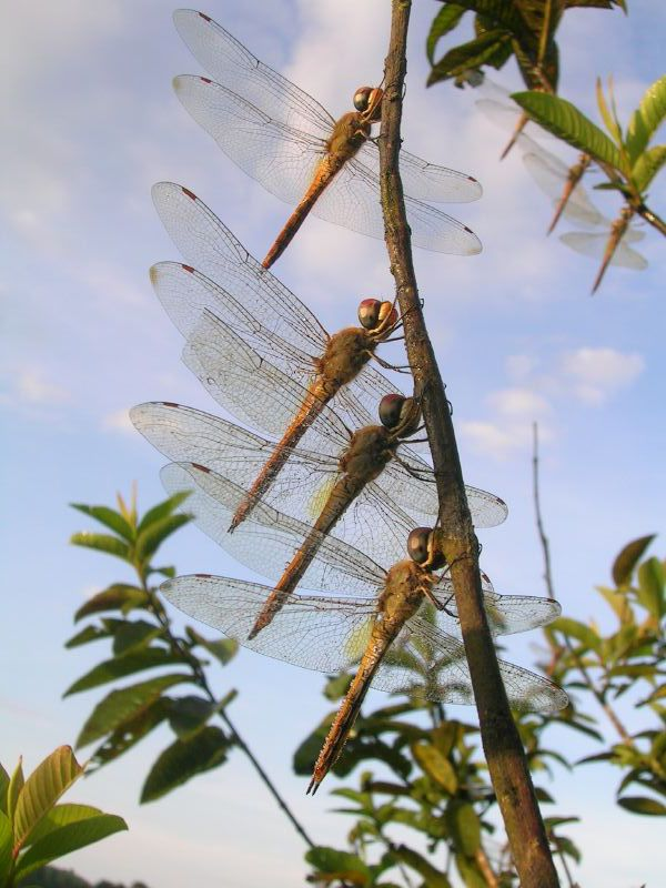 Resting dragonflies, Pantala flavescens, probably in migration. Talakaveri, Coorg, India